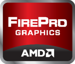 AMD FirePro Logo (New Edition).